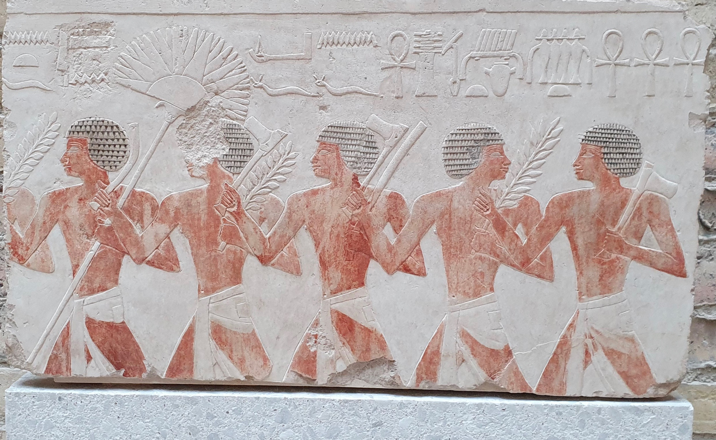 Relief from Hatshepsut Temple in Berlin (Neues Museum)